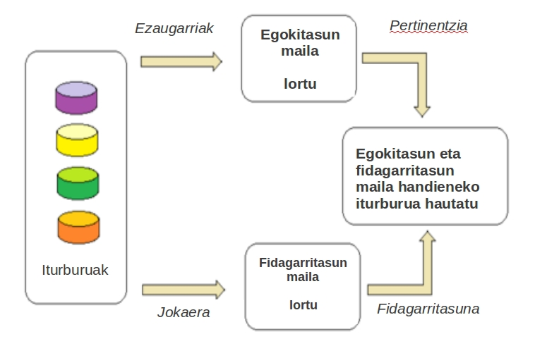 ezagutza-metodologiaren eskema